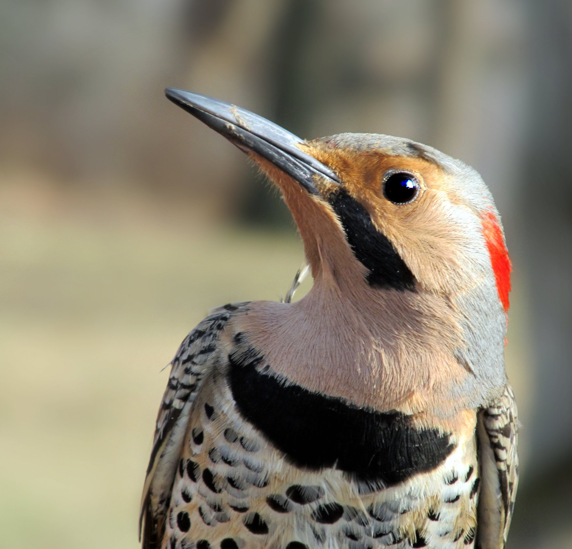 Northern Flicker